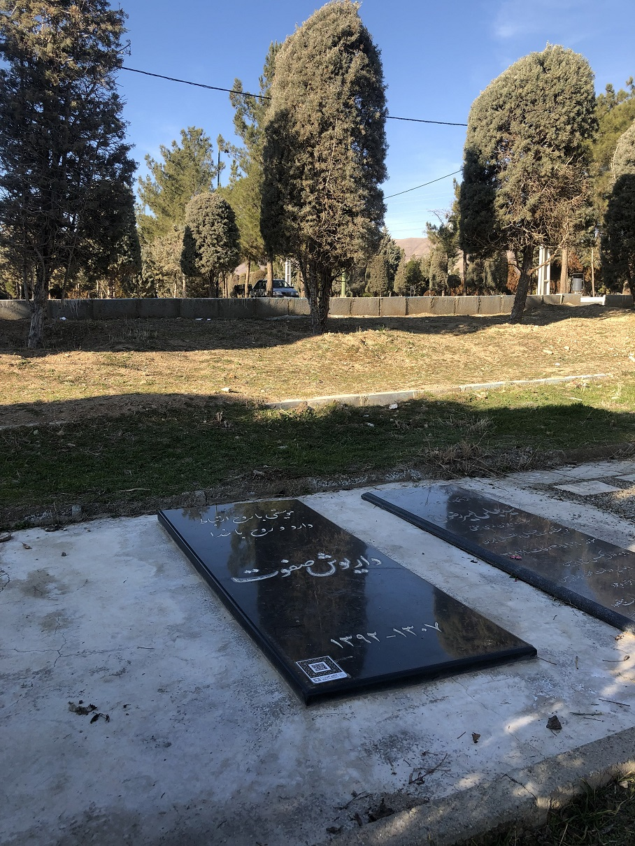 Beheshte Sakineh Cemetery